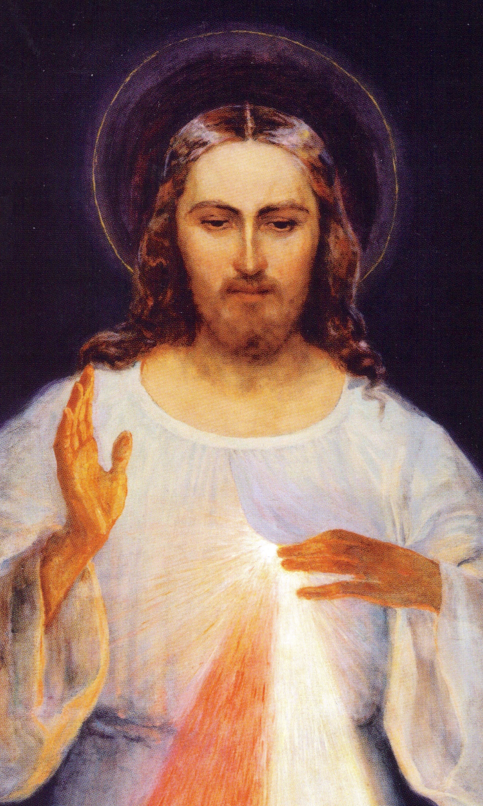 Closeup of the first Divine Mercy painting, created in 1934 based on the request of Saint Faustyna Kowalska and her confessor Michael Sopocko by Eugeniusz Kazimirowski.